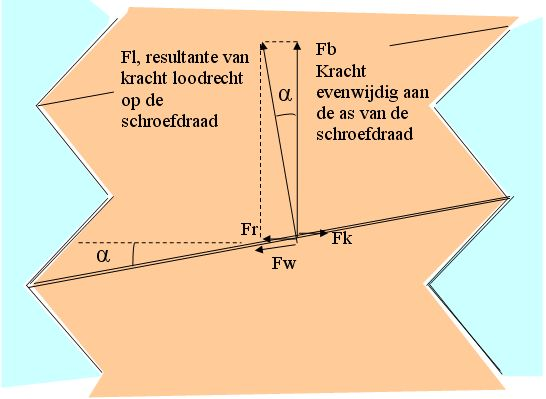 Force diagram of a screw thread.